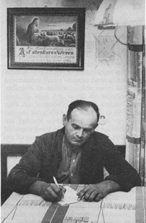 Georg Reichert is writing